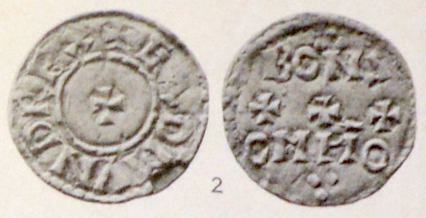 Coin of King Edmund I of England